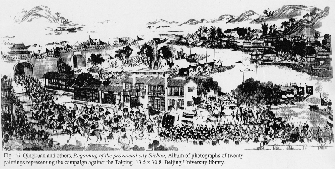 A scene of the Taiping Rebellion, 1850-1864